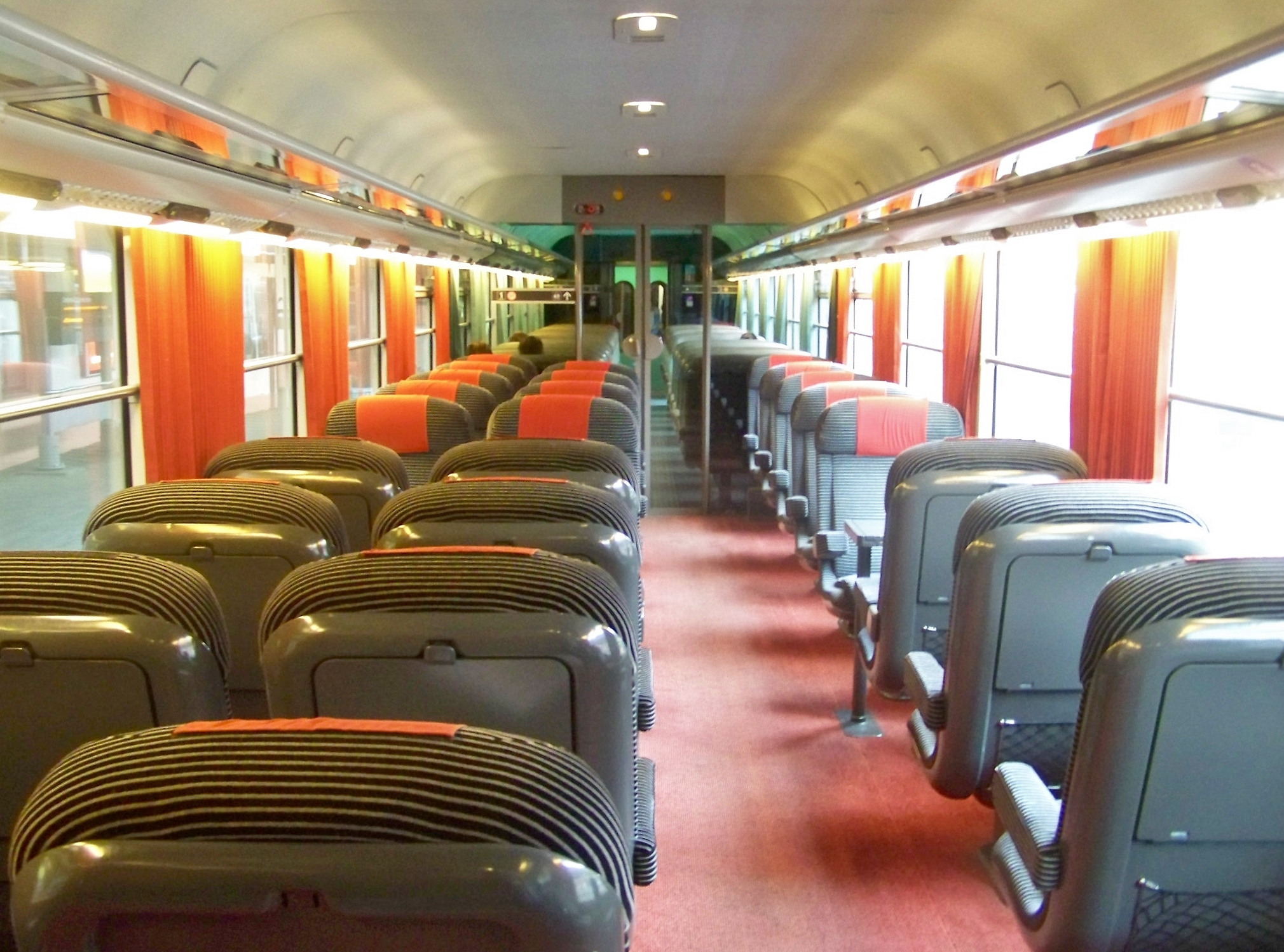 Inside sight of a French first class SNCF Corail Rail Car, here between Chambéry and Lyon in Rhône-Alpes.